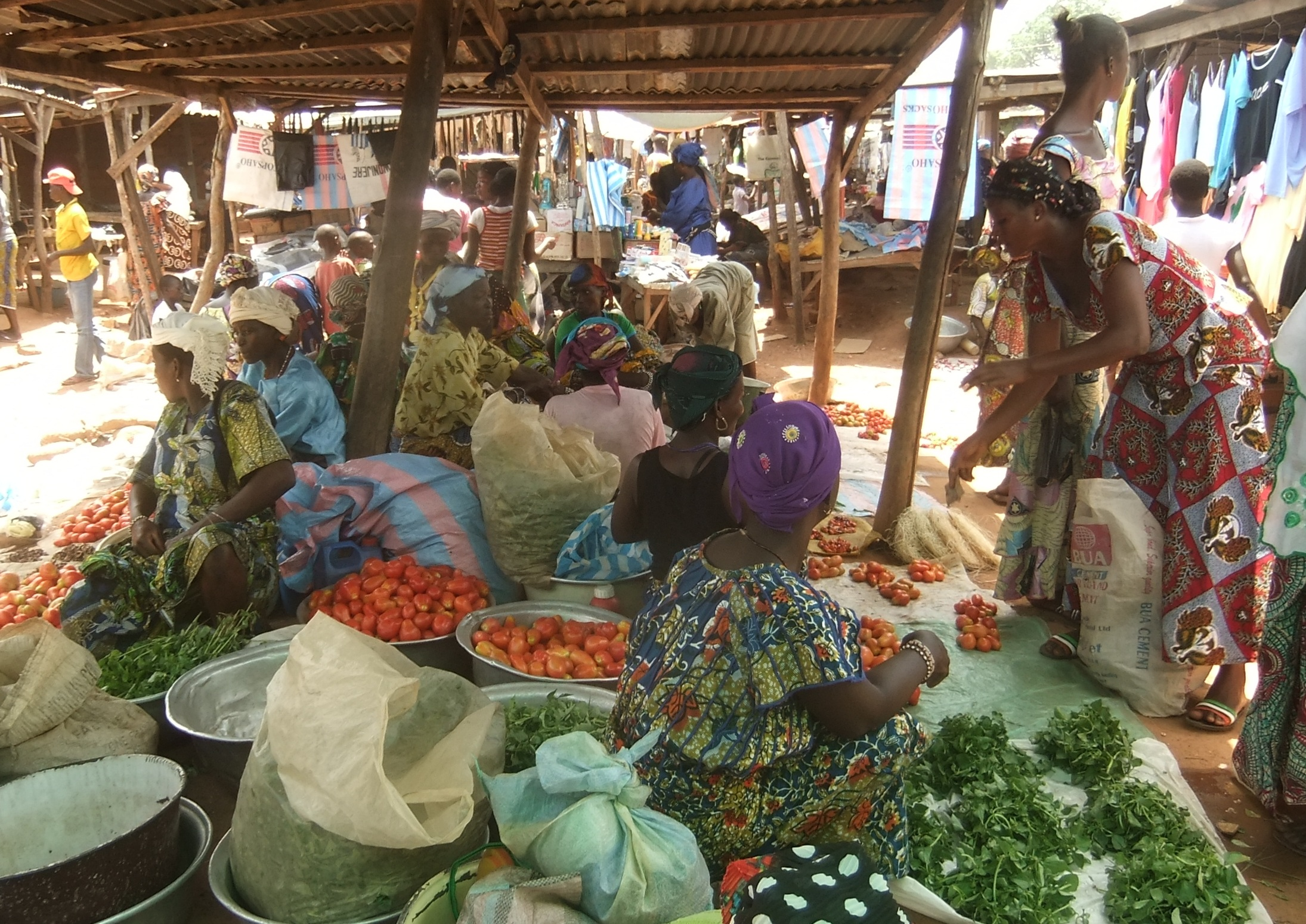 Natintigou, Benin This is an image of "African people at work" from Benin